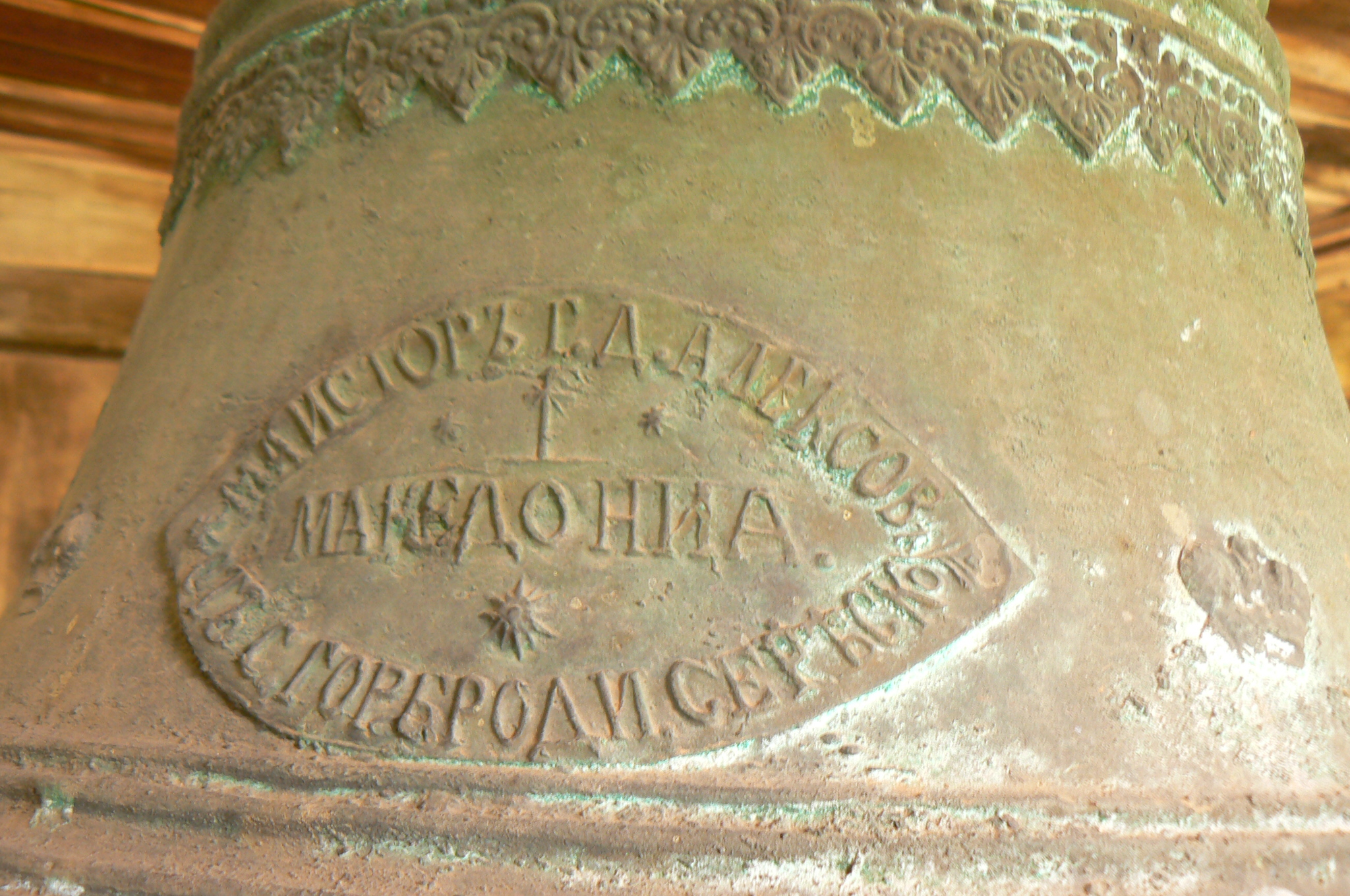 The bell of the church in village Izvora, Servia